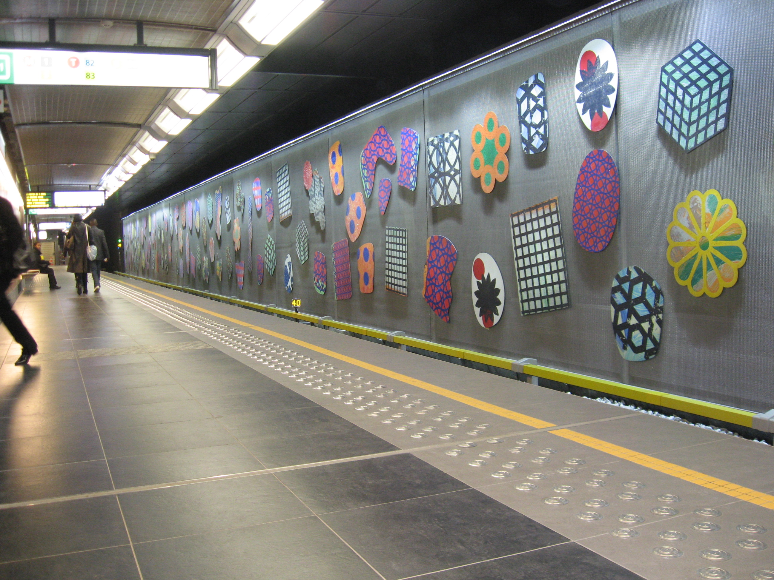 Decorated walls on metroline 2/5 by Weststation